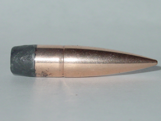 Picture of a standard 'K Bullet' as made before the Allied Invasion.